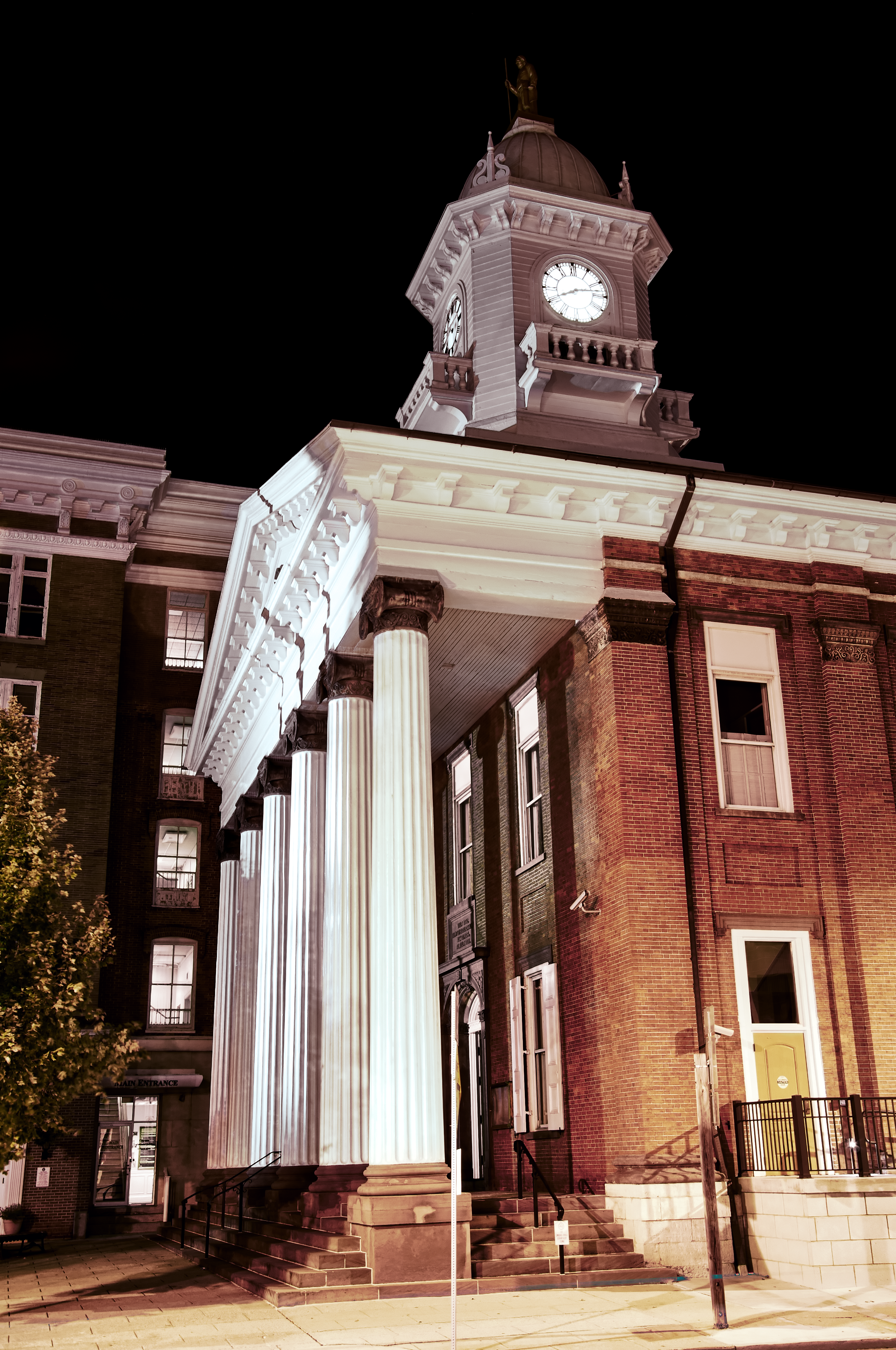 Franklin County Courthouse, 1 North Main Street, on Memorial Sq. Chambersburg